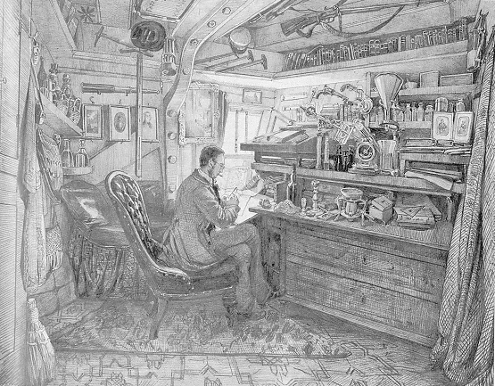 Geologist Ferdinand von Hochstetter in his cabin on board the Novara.